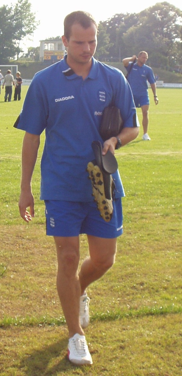 Football (soccer) midfielder Stephen Clemence (then of Birmingham City F.C.) photographed before pre-season friendly match VfB Poessneck (Germany) v Birmingham City FC